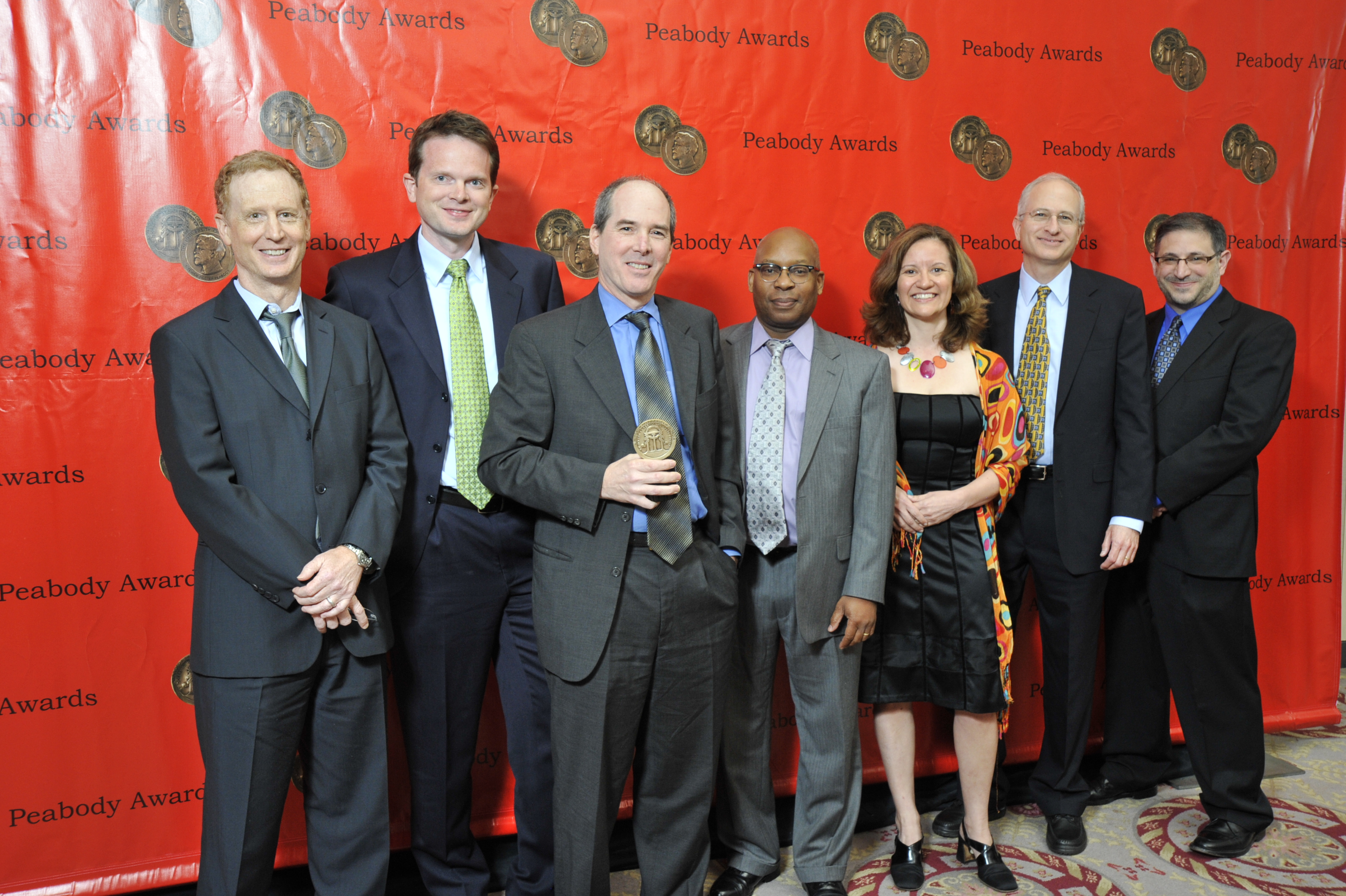 Kinsey Wilson 69th Annual Peabody Awards Luncheon Waldorf=Astoria Hotel New York, NY USA May 17, 2010